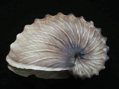 Argonauta hians world record size shell (from private collection), Taiwan.